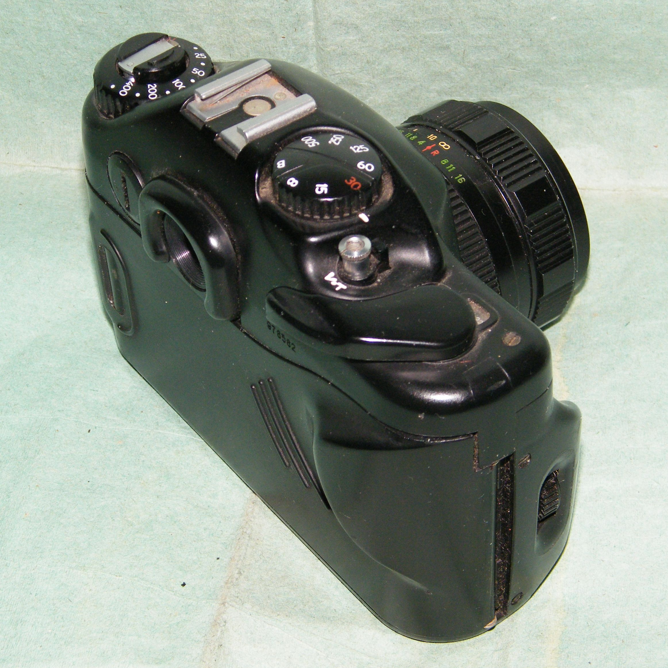 Zenit 212k